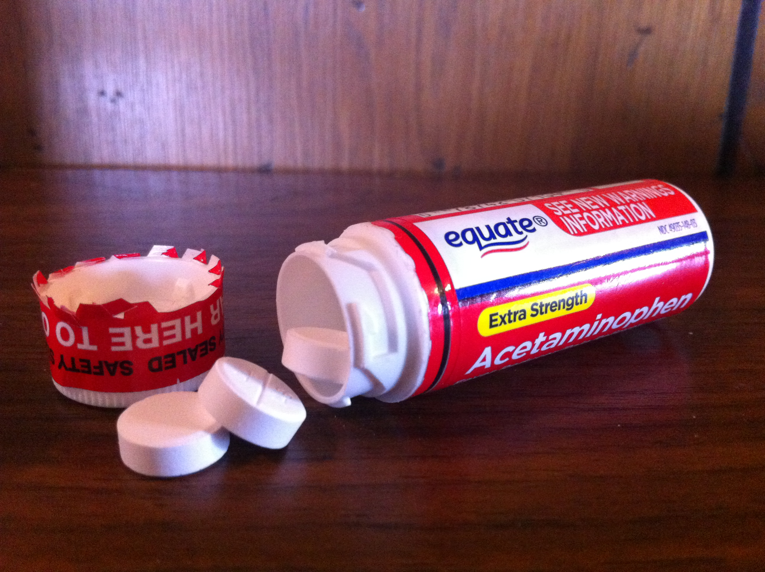 Equate Aceteminophen Pills and Container